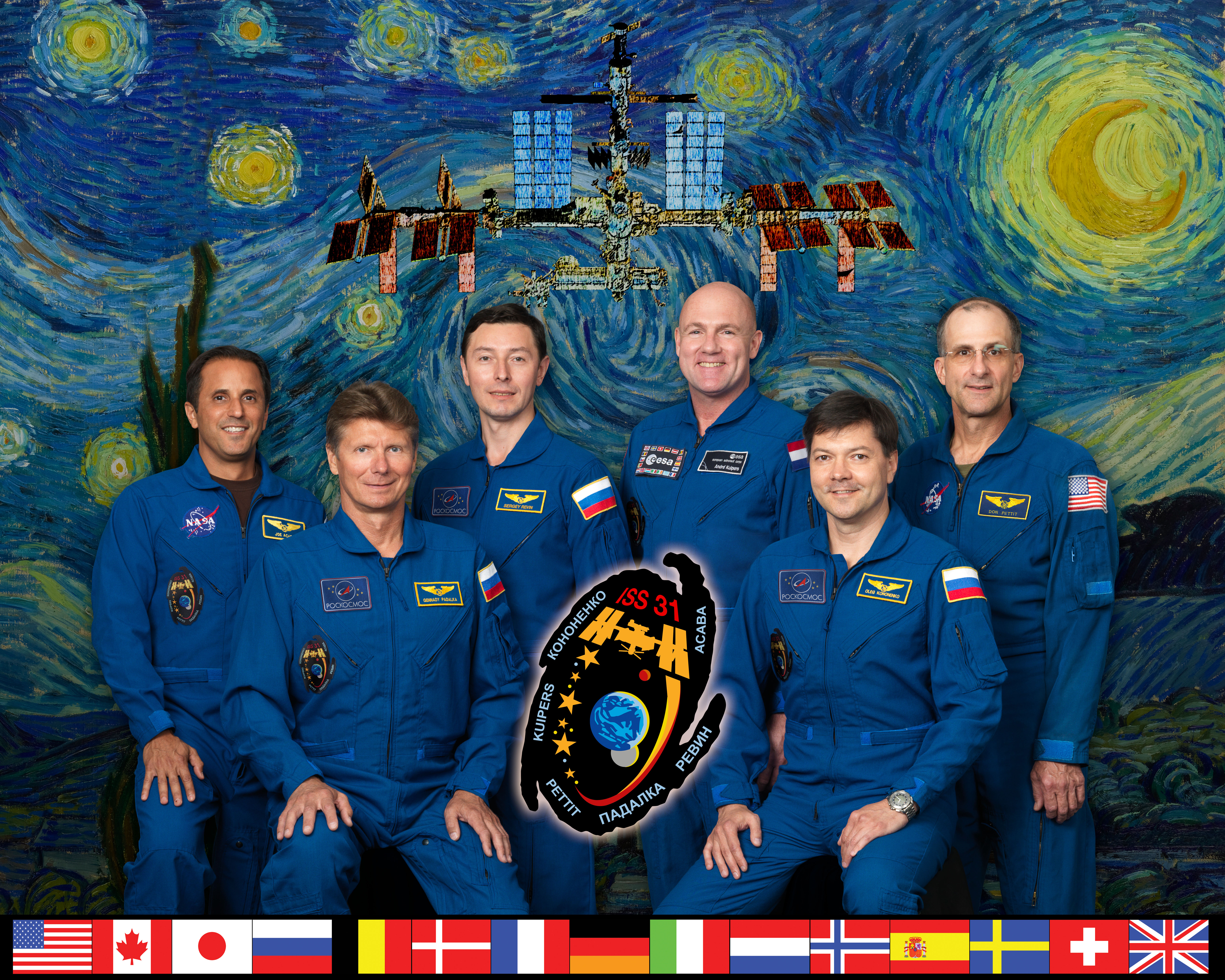 Expedition 31 crew members take a break from training at NASA's Johnson Space Center to pose for a crew portrait. Pictured on the front row are Russian cosmonauts Oleg Kononenko (right), commander; and Gennady Padalka, flight engineer. Pictured from the left (back row) are NASA astronaut Joe Acaba, Russian cosmonaut Sergei Revin, European Space Agency astronaut Andre Kuipers and NASA astronaut Don Pettit, all flight engineers. Background was inspired by Van Gogh's "Starry Night".